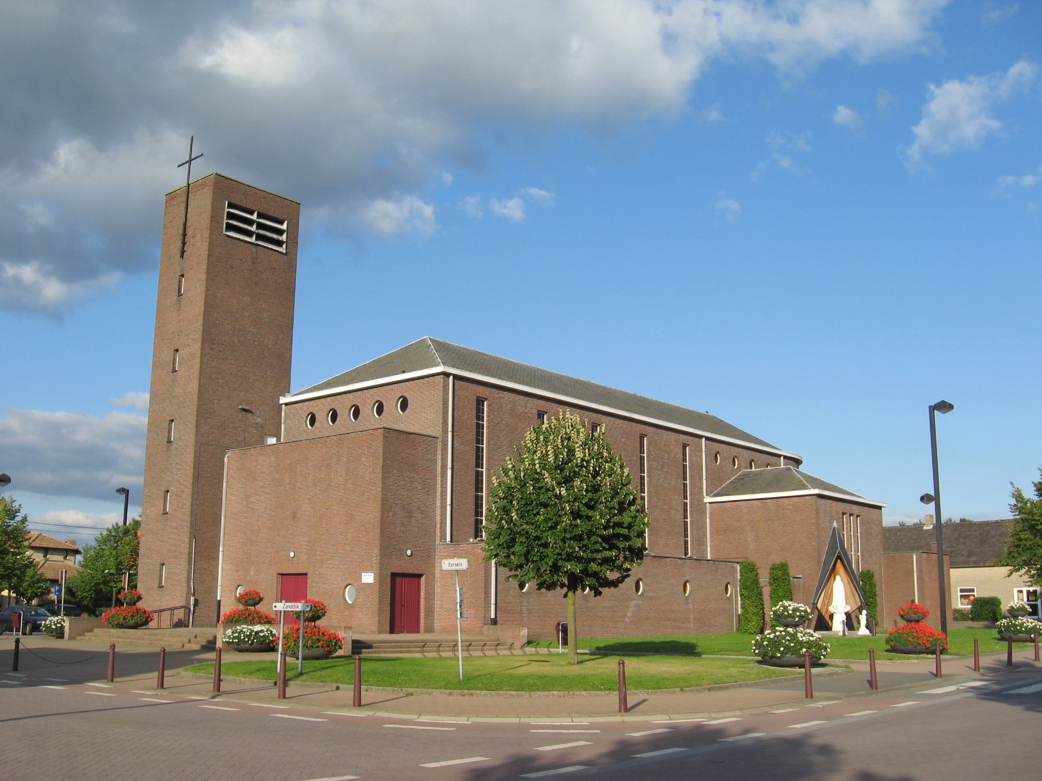 Church of the Holy Family in Witgoor, Dessel, Antwerp, Belgium